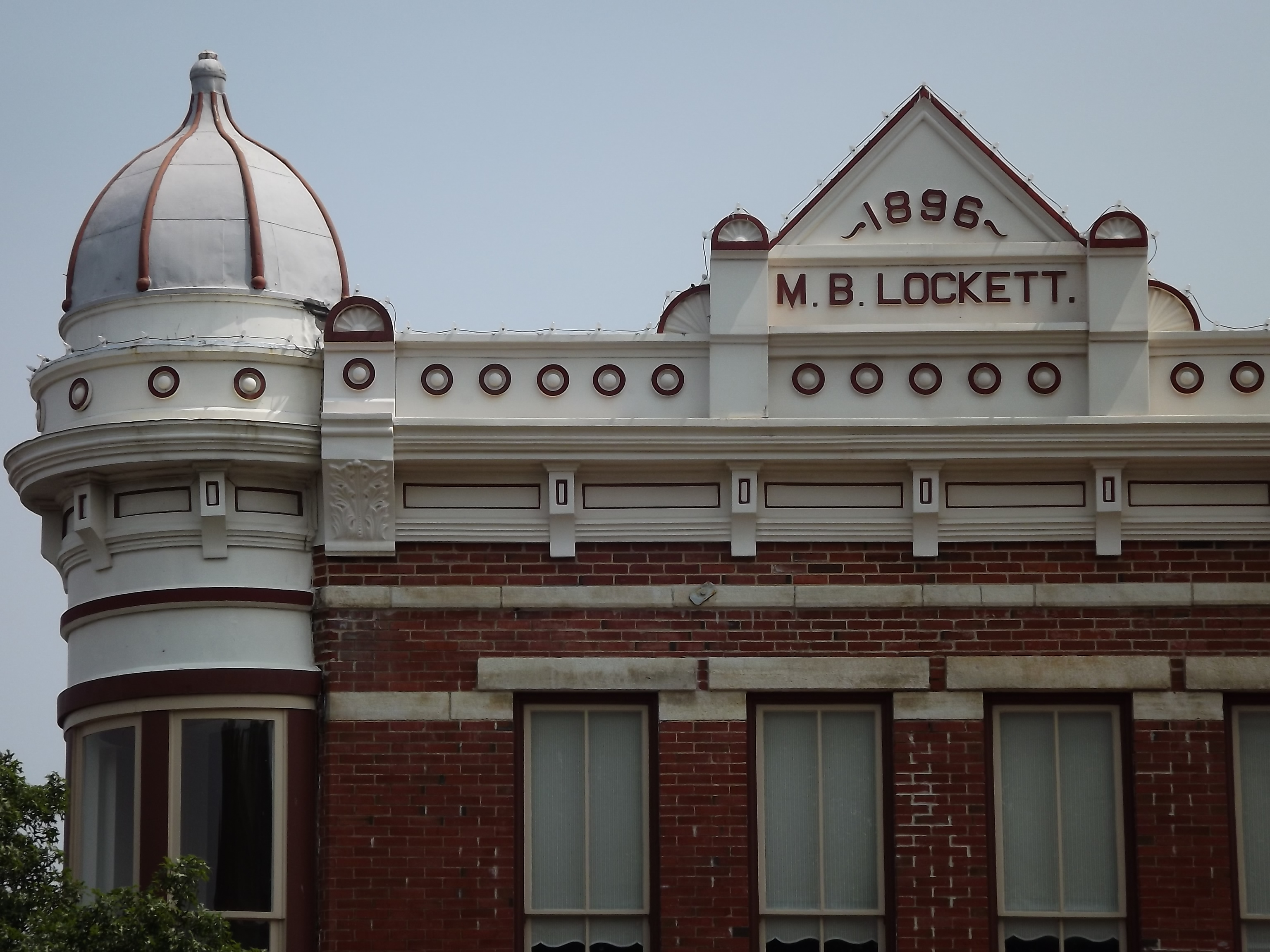 Williamson County Courthouse Historical District